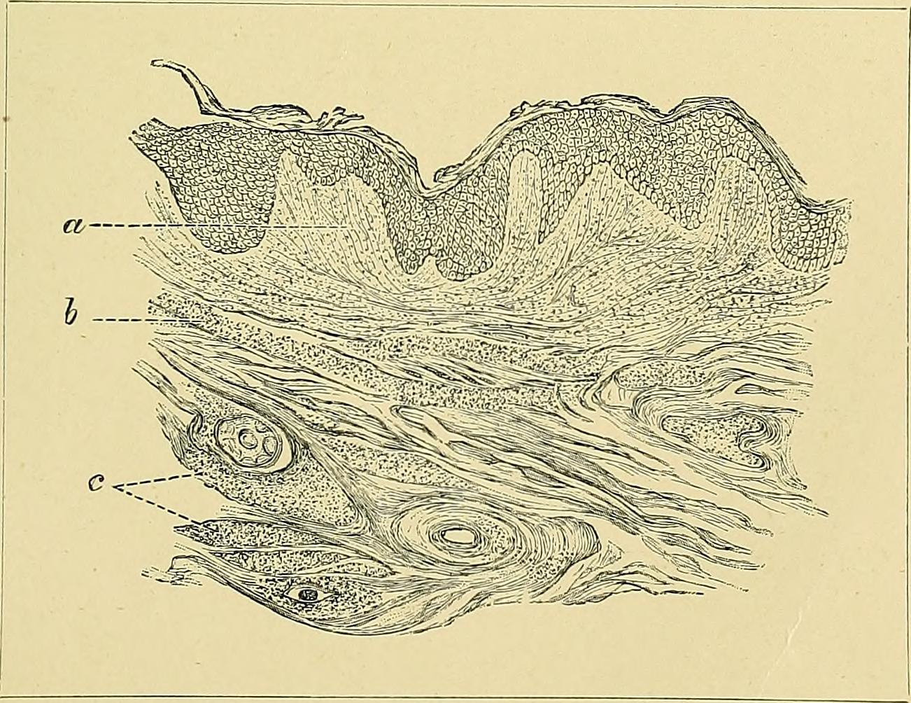 Title: Syphilis Year: 1895 (1890s) Authors: Cooper, Alfred, Sir, 1846-1908 Cotterell, Edward, 1857-1898 Subjects: Syphilis Syphilis Publisher: Philadelphia : P. Blakiston Text Appearing Before Image: Fig. 2. Text Appearing After Image: AFFECTIONS OF THE SKIN. 121 layer is lost, the papillae are more or less flattened out,the fibres of the corium are separated, presumably bythe fluid effused, so that the individual fibres can bemade out. There is only a moderate small cell infil-tration, and this is almost exclusively round thevessels of the superficial plexus, with their papillarybranches; the capillaries and small arteries aremoderately dilated and both stuffed and surroundedby cells; in the walls of the capillaries are pro-minent nuclei. The adventitia of the larger vesselscontains round and spindle cells as first described byBiesiadecki. There is slight cell effusion around thehair, sebaceous follicles, and sweat ducts, when theylie in the upper part of the corium, but the sweatglands and all the structures in the deep part of thecorium are normal. Kaposi saw caudate cells in theconnective tissue of the papillae. Syphilitic roseola may be mistaken for othercutaneous eruptions—e.g.^ the rash of measles, scarla-t